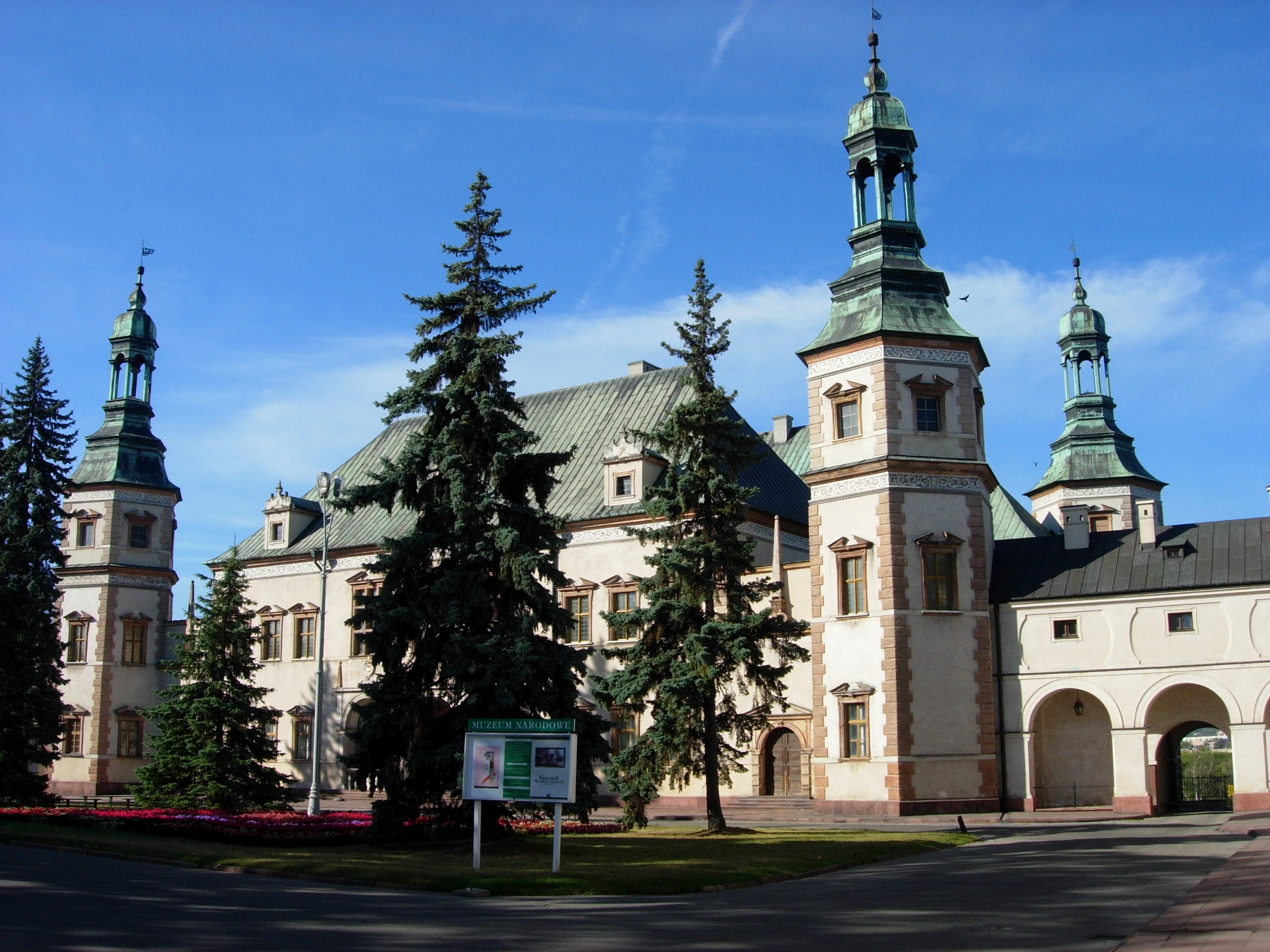 The Late Renaissance Polish Mannerist Palace of the Kraków Bishops in Kielce, in Świętokrzyskie Voivodeship, Poland